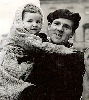 JackMurphy1957